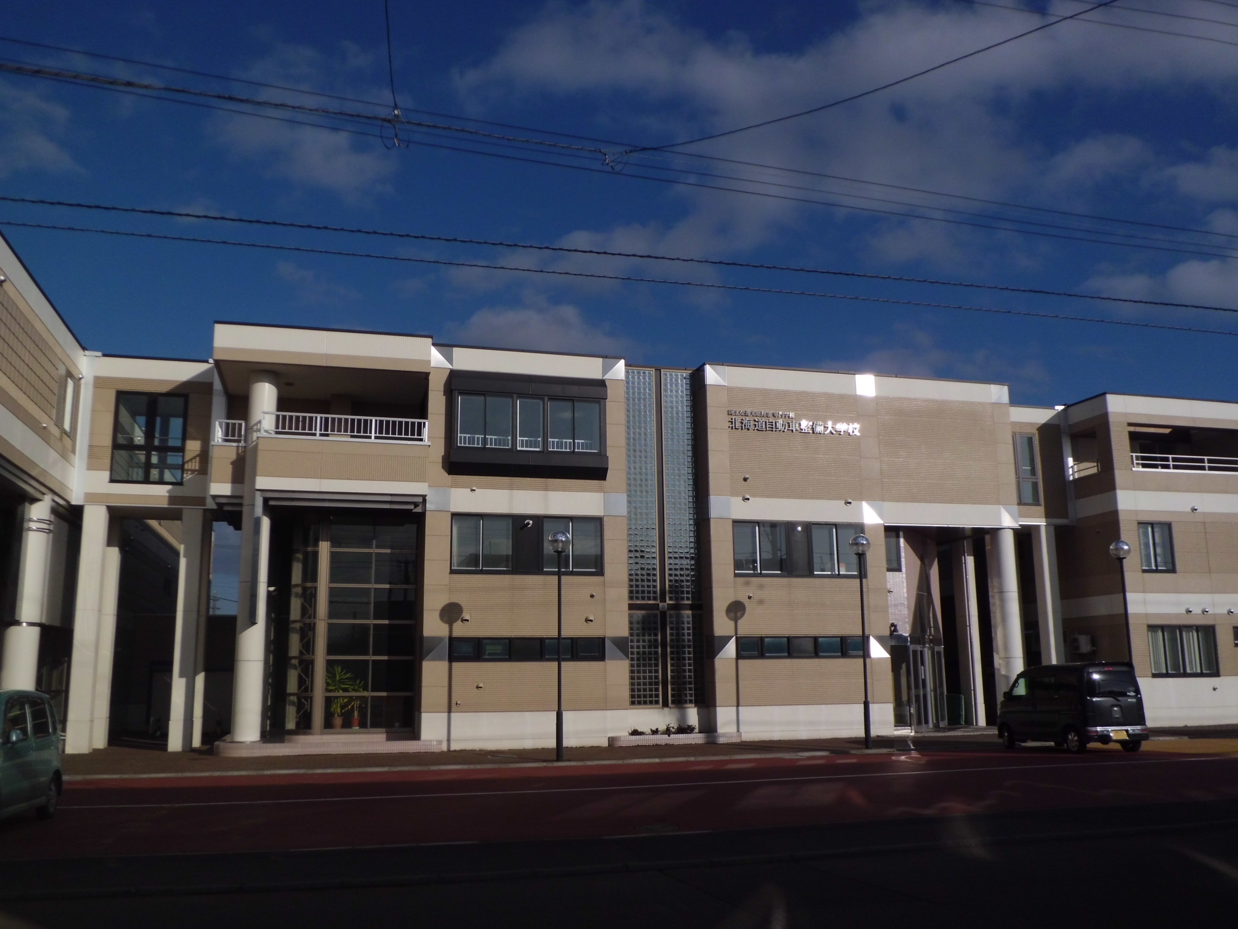 Hokkaido Automobile College in Nakanuma, Higashi-ku, Sapporo city.